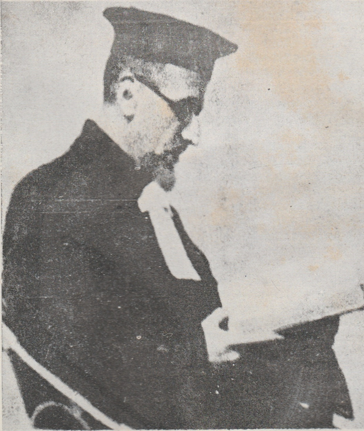 Rav Gustavo Bonaventura Castelbolognesi